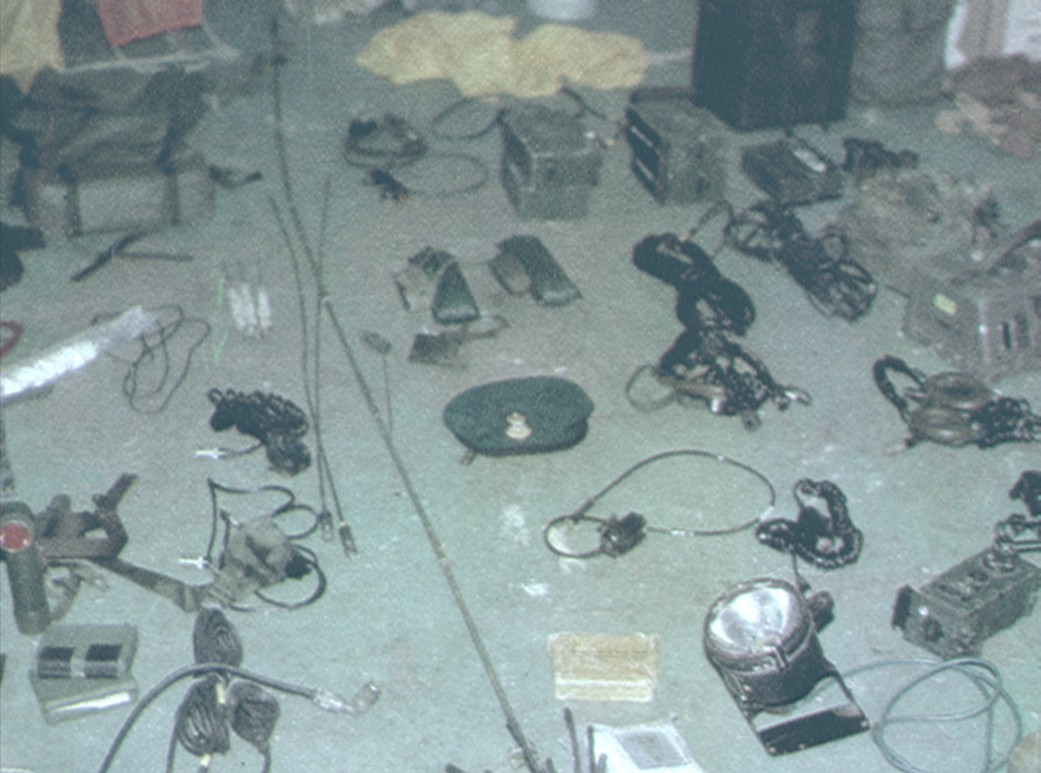 Royal Marines equipment captured by Argentine commandos from an OP near Mount Wall, southwest of Stanley.